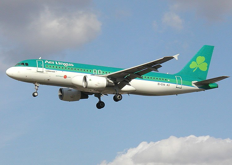 Airbus A320-200 of Aer Lingus (EI-CVA) landing at London (Heathrow) Airport.